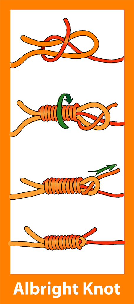 Corrected version of tying diagram for Albright special fishing knot.